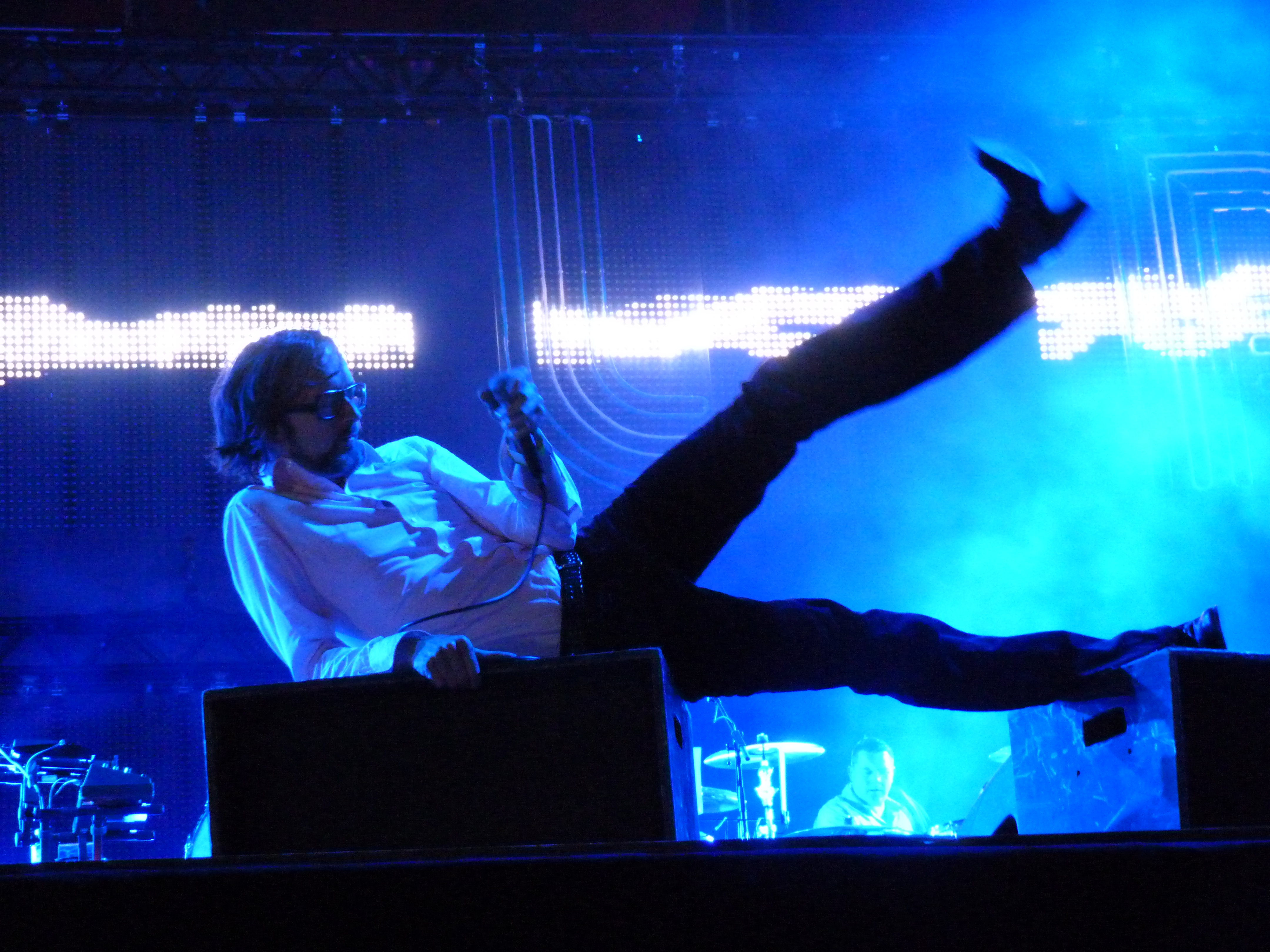 Live at the Sziget Festival, Budapest, on the 10th of August, 2011. The Pop-Rock Grand Stage, last band. The Pulp indie rock band formed in Sheffield in 1978. Their recent lineup consists of Jarvis Cocker (vocals, guitar), Russell Senior (violin, guitar), Candida Doyle (keyboards), Mark Webber (guitar), Steve Mackey (bass) and Nick Banks (drums).